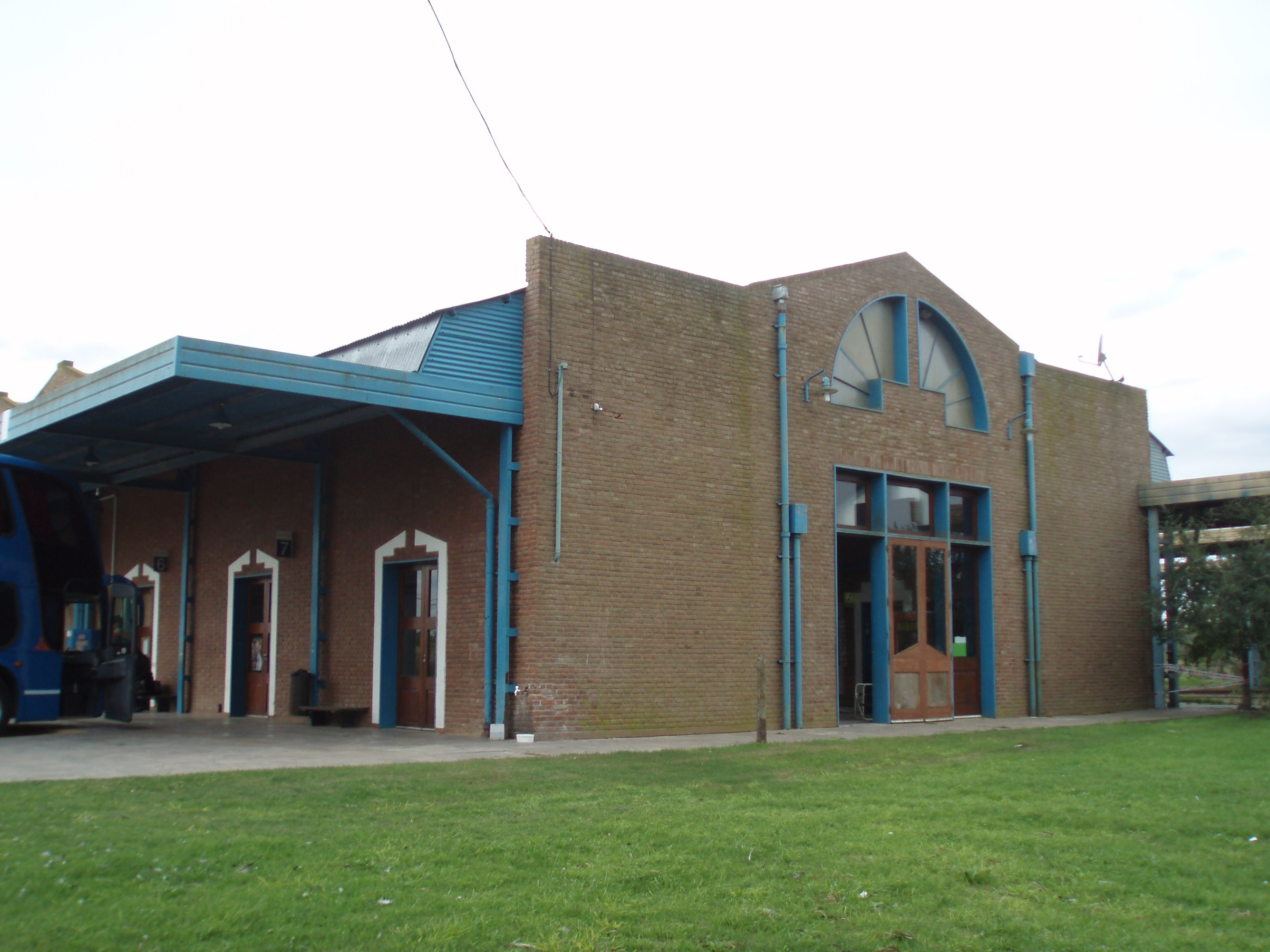 Bus and train terminus of Chascomus, Buenos Aires Province.